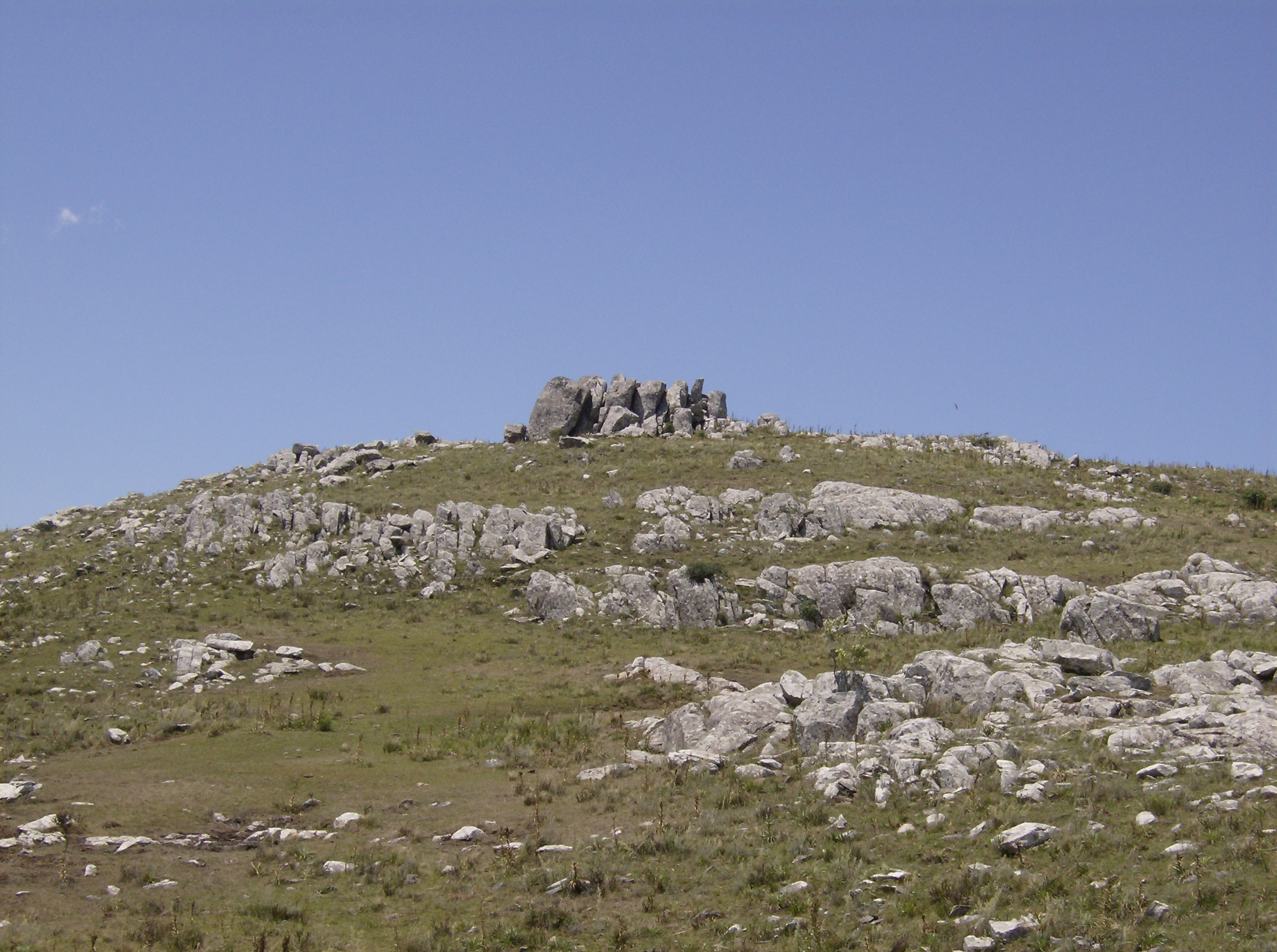 Cerro Catedral (or Cerro Cordillera), the highest point of Uruguay, with an altitude of 513.66 metres (1,685.24 feet.)